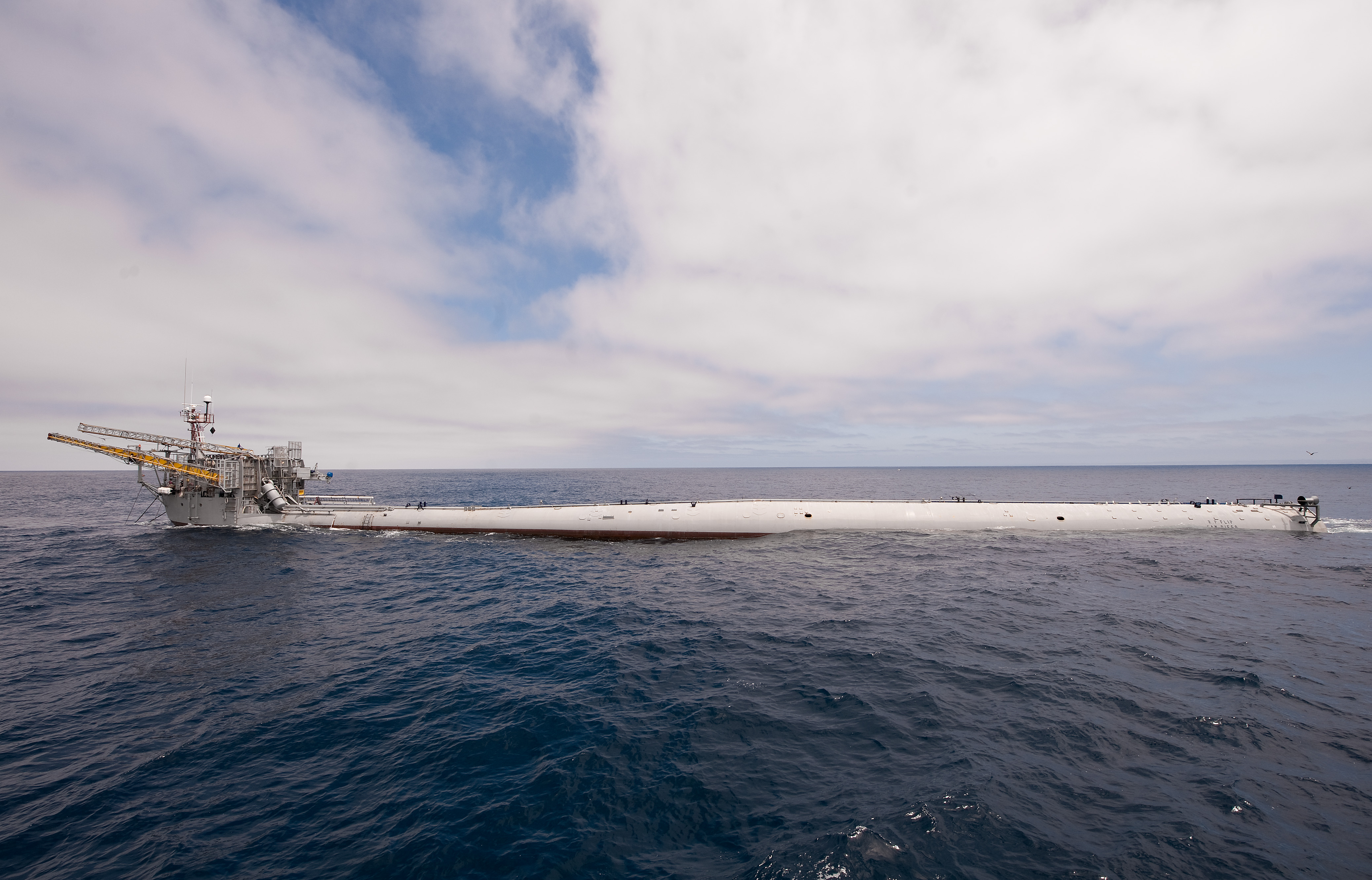 A tug tows the Department of the Navy's Floating Instrument Platform (FLIP) in the horizontal position off the coast of California where it will transition to a vertical position in order to conduct scientific research. Built in 1962, the 355-foot research vessel, owned by the Office of Naval Research (ONR) and operated by the Marine Physical Laboratory at Scripps Institution of Oceanography at University of California, is celebrating 50 years of operation.